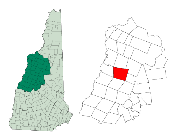 Map of a municipality in Belknap County, New Hampshire